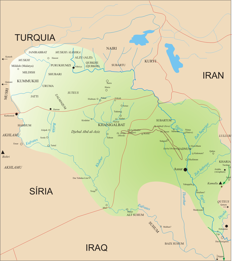 Assyria under Tiglath-Pileser I